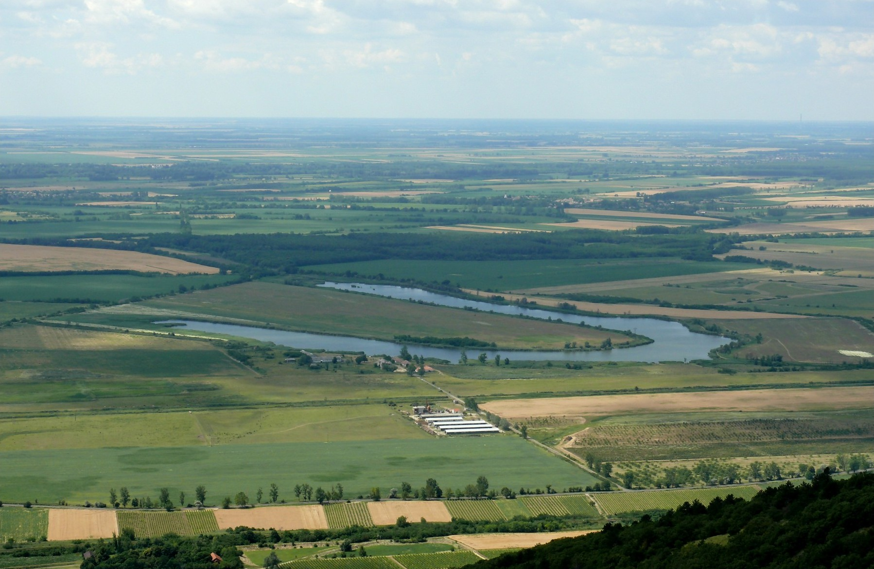 Tarcal, Hungary. Bodrog or Tisza?